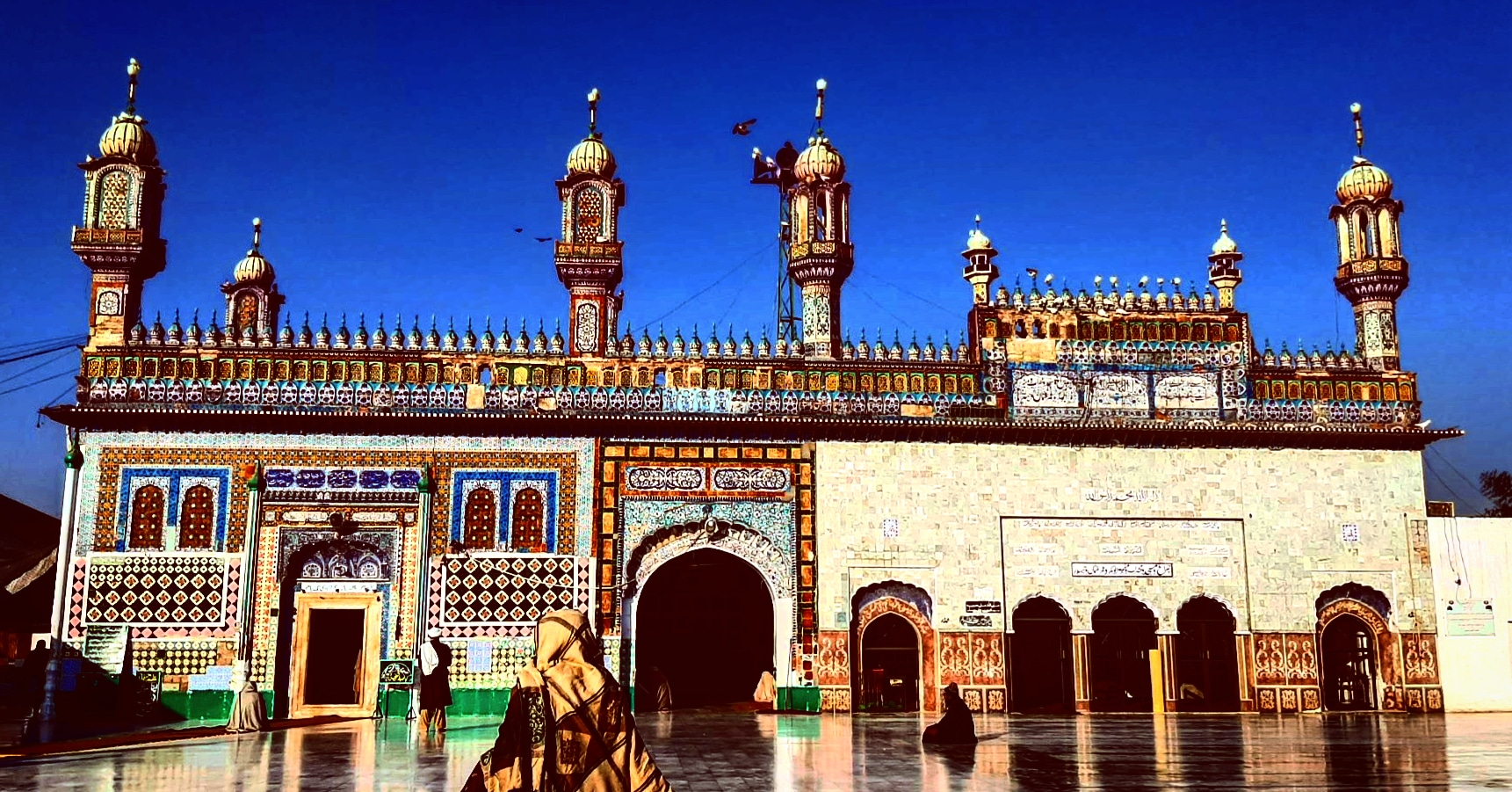 Scared Shrine Of Hazrat Sultan Bahu R.A